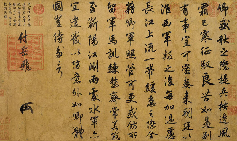 In the autumn of 1137, Yue Fei (1103-1142) led troops on an inspection tour of border defenses against the Jurchen of the Jin. Emperor Gaozong (r. 1127-1162) wrote this imperial missive in response to Yue Fei's report, praising and exhorting his steadfast loyalty to the country. The calligraphy is done in regular script with elements of running script.